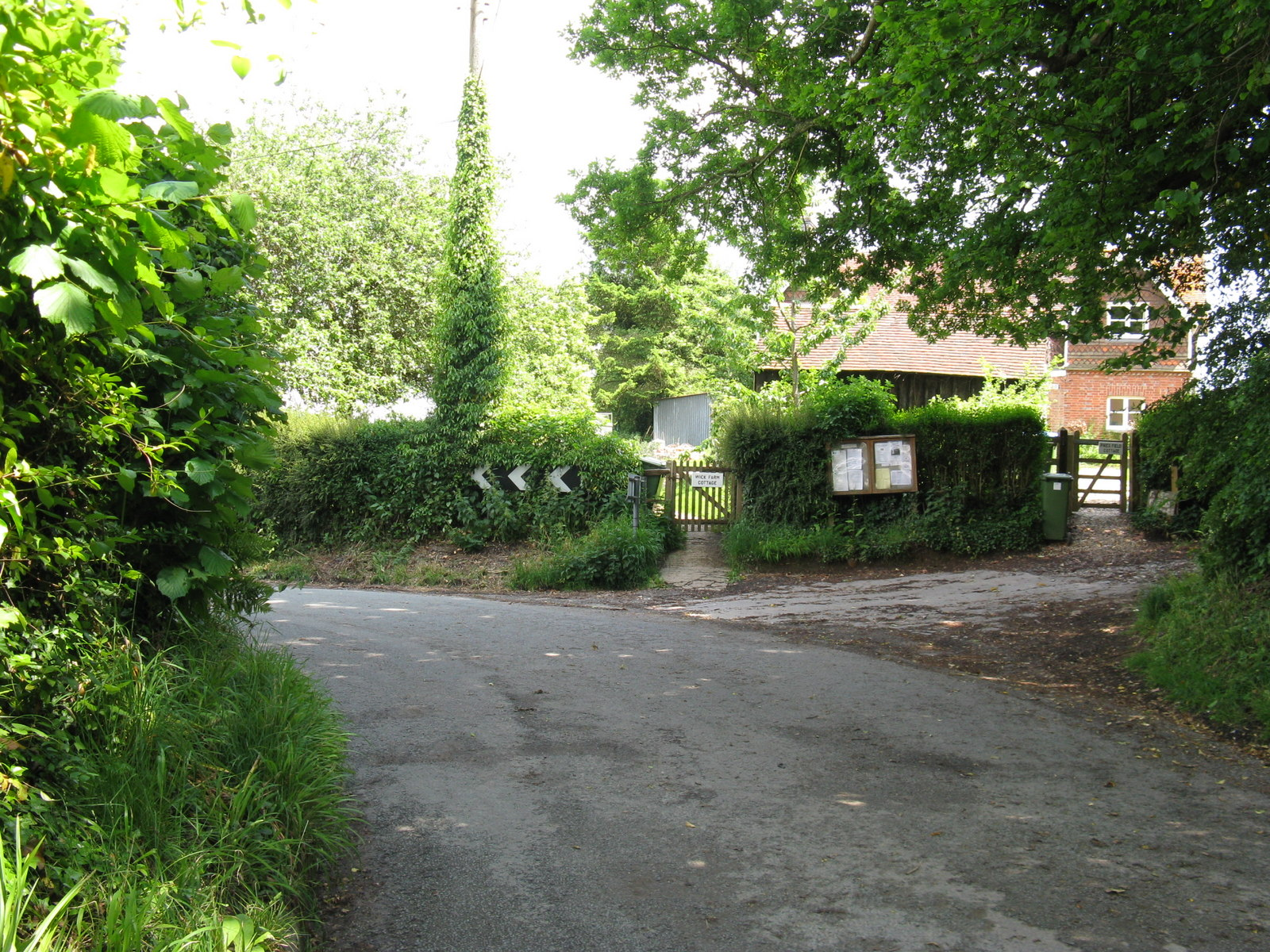 Sharp bend at the end of Blackstone Street